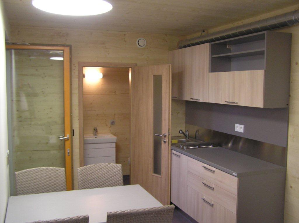 Interior of mobile home Kubis